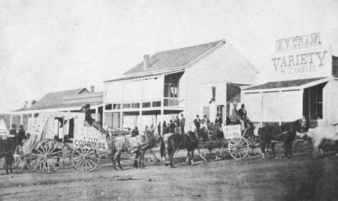 Arizona Territorial capitol in Prescott, Arizona and Phoenix, Arizona